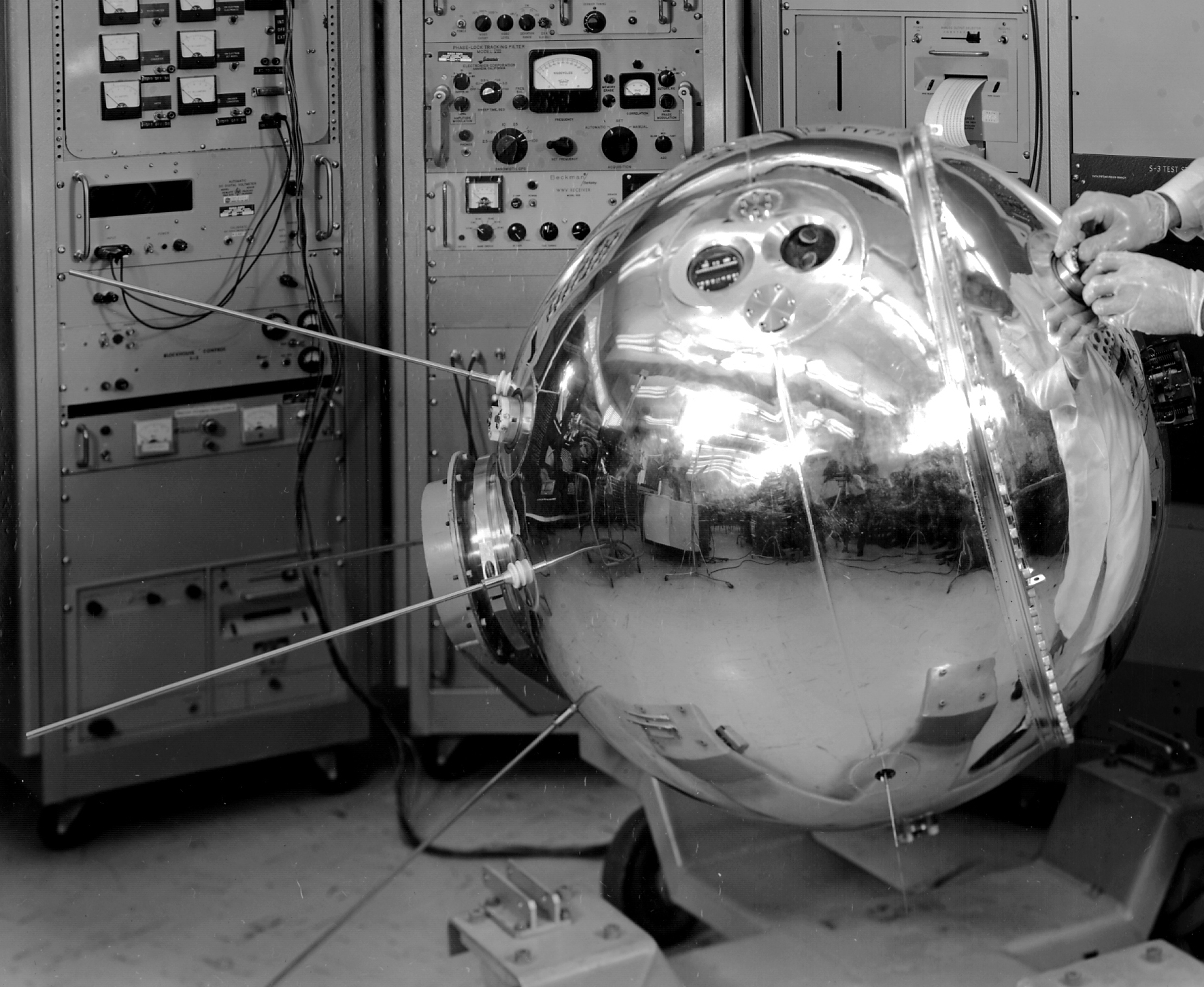 Explorer 17, also known as AE-A ... NASA photo